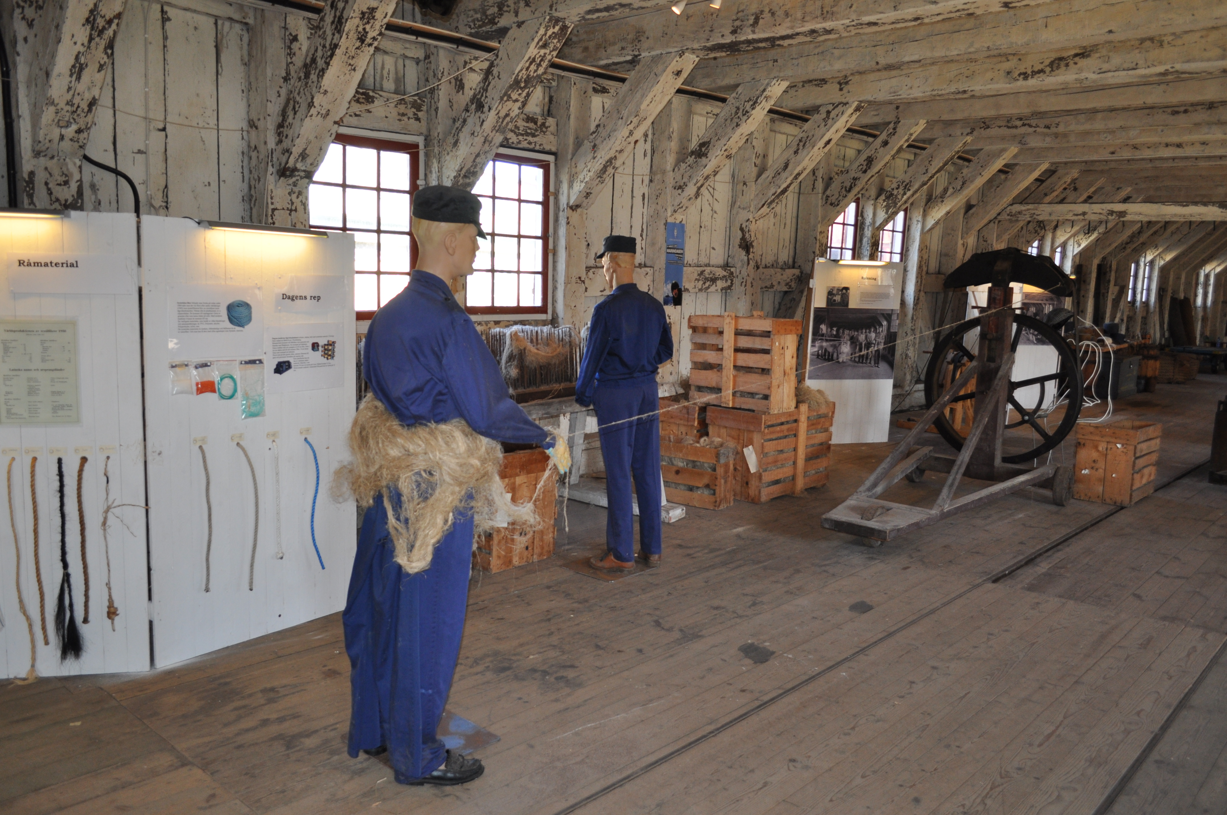 Repslagarbanan on Lindholmen- Karlskrona naval port